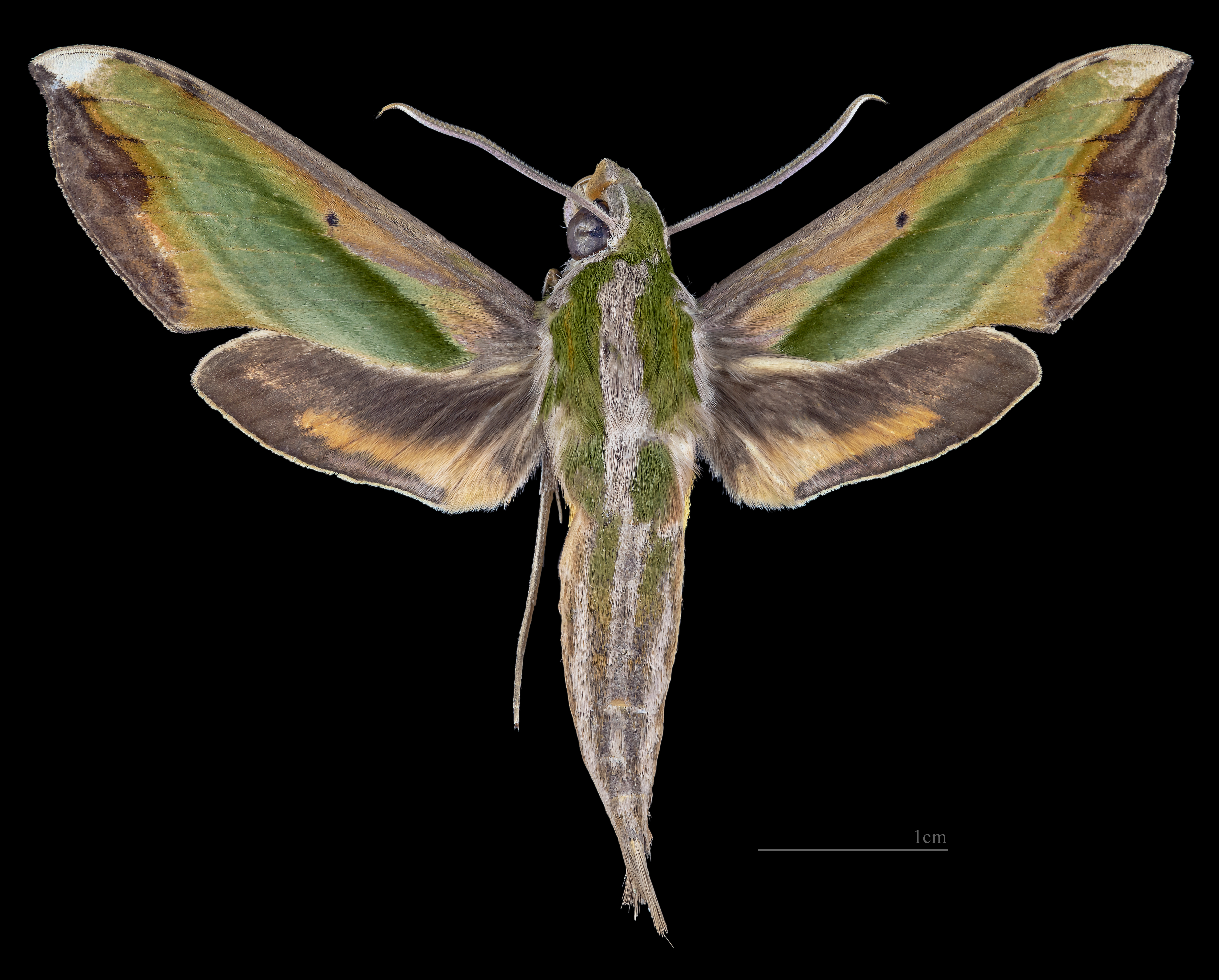 Pergesa acteus - Dorsal side Collection of the Mathematician Laurent Schwartz